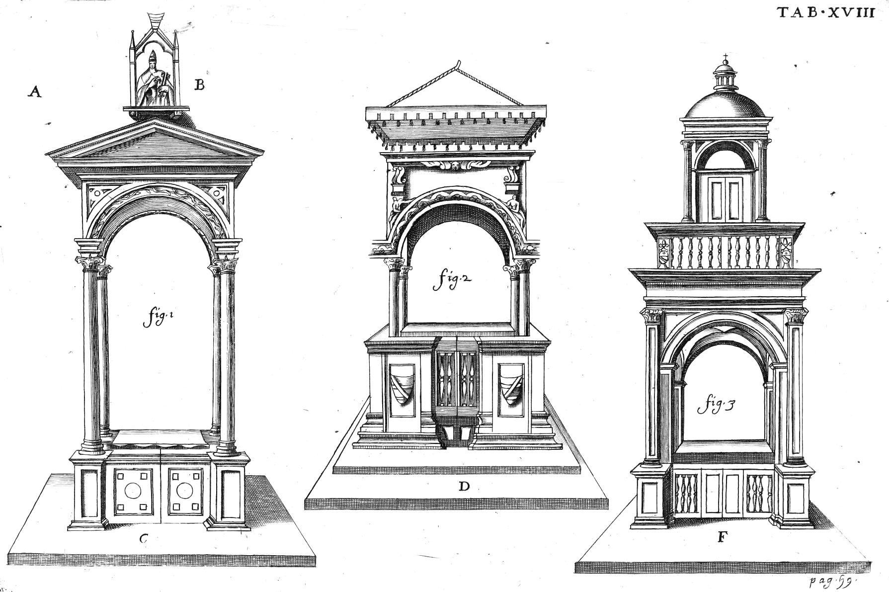 Engravings of (old) Saint Peter's Basilica in Rome.